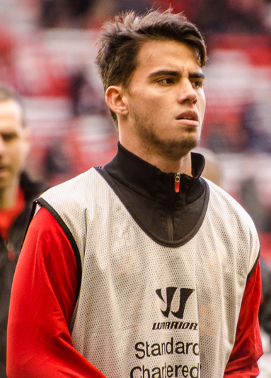 Suso warming-up before match between Liverpool FC and Wigan Athletic at Anfield Road on 17 November 2012.